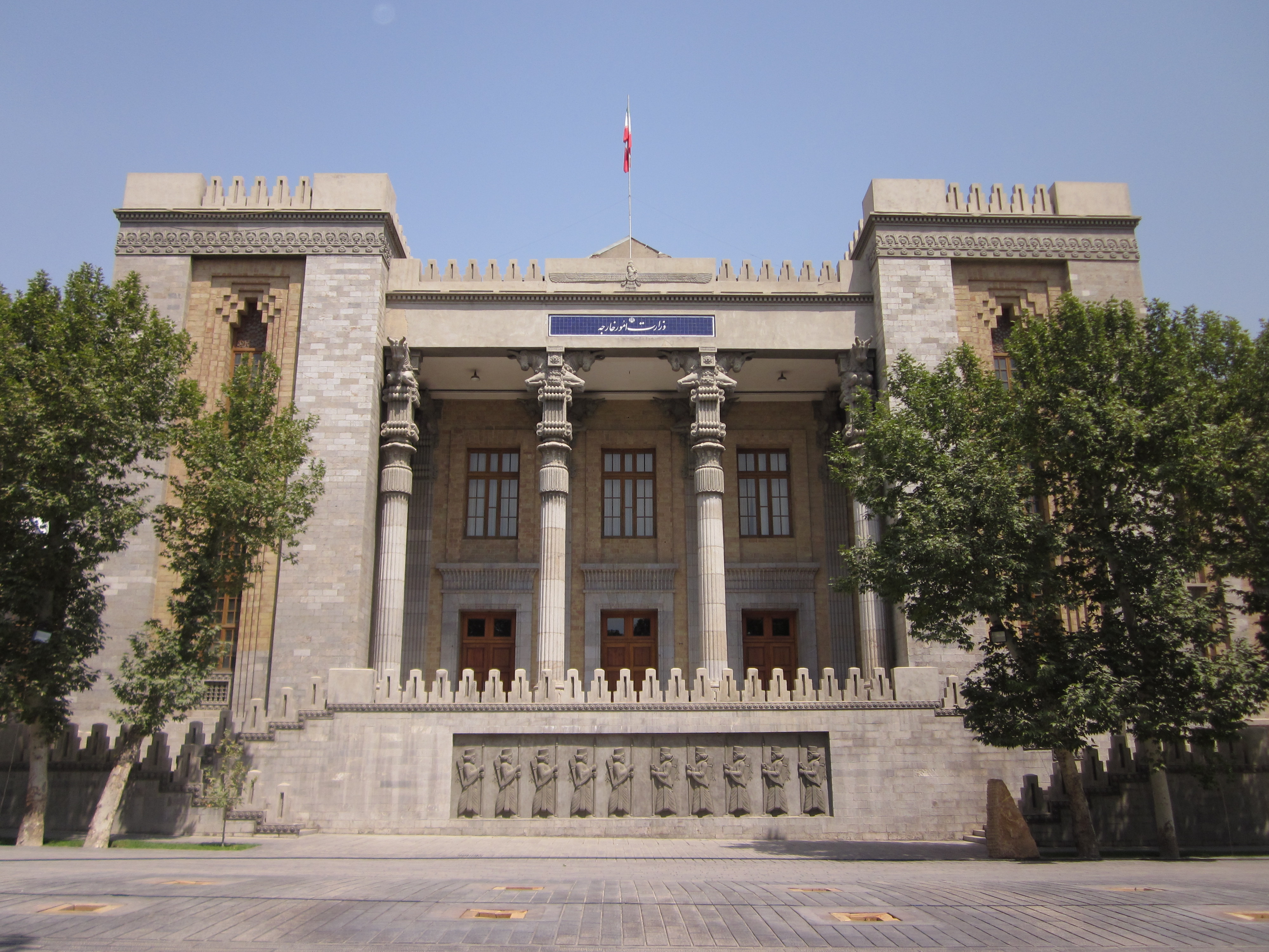 Parade Ground's Complex, Tehran, Iran.